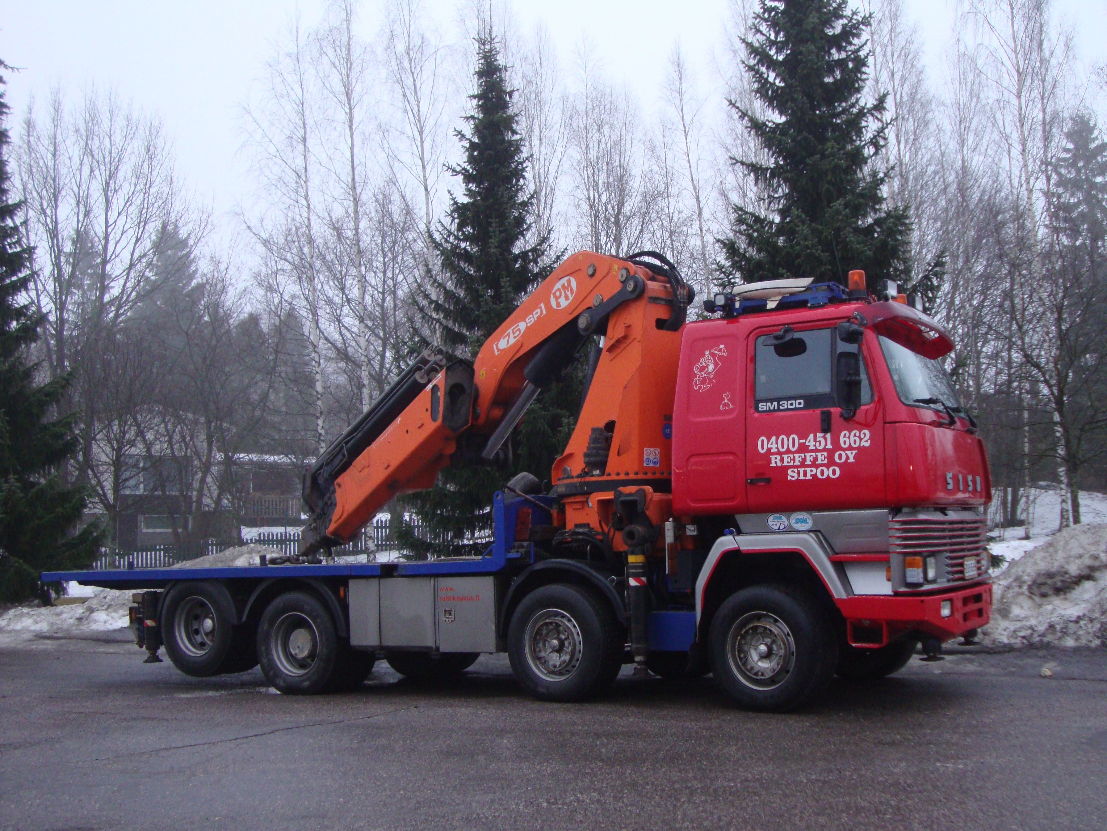 Sisu SM300 truck in Kerava, Finland